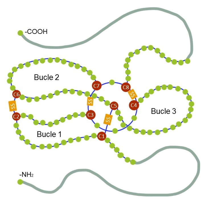 Estructura de la proteïna